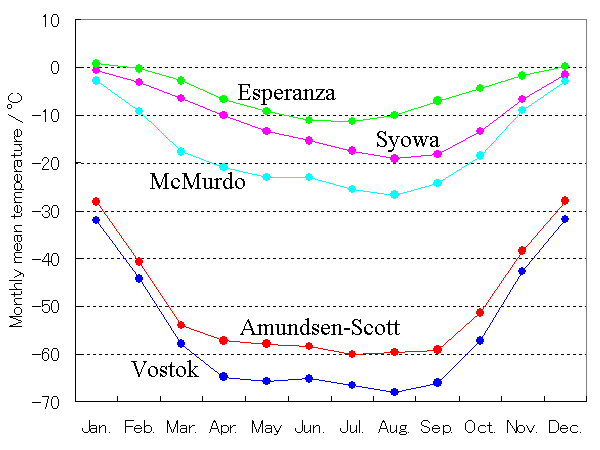 Antarctic monthly mean temperature